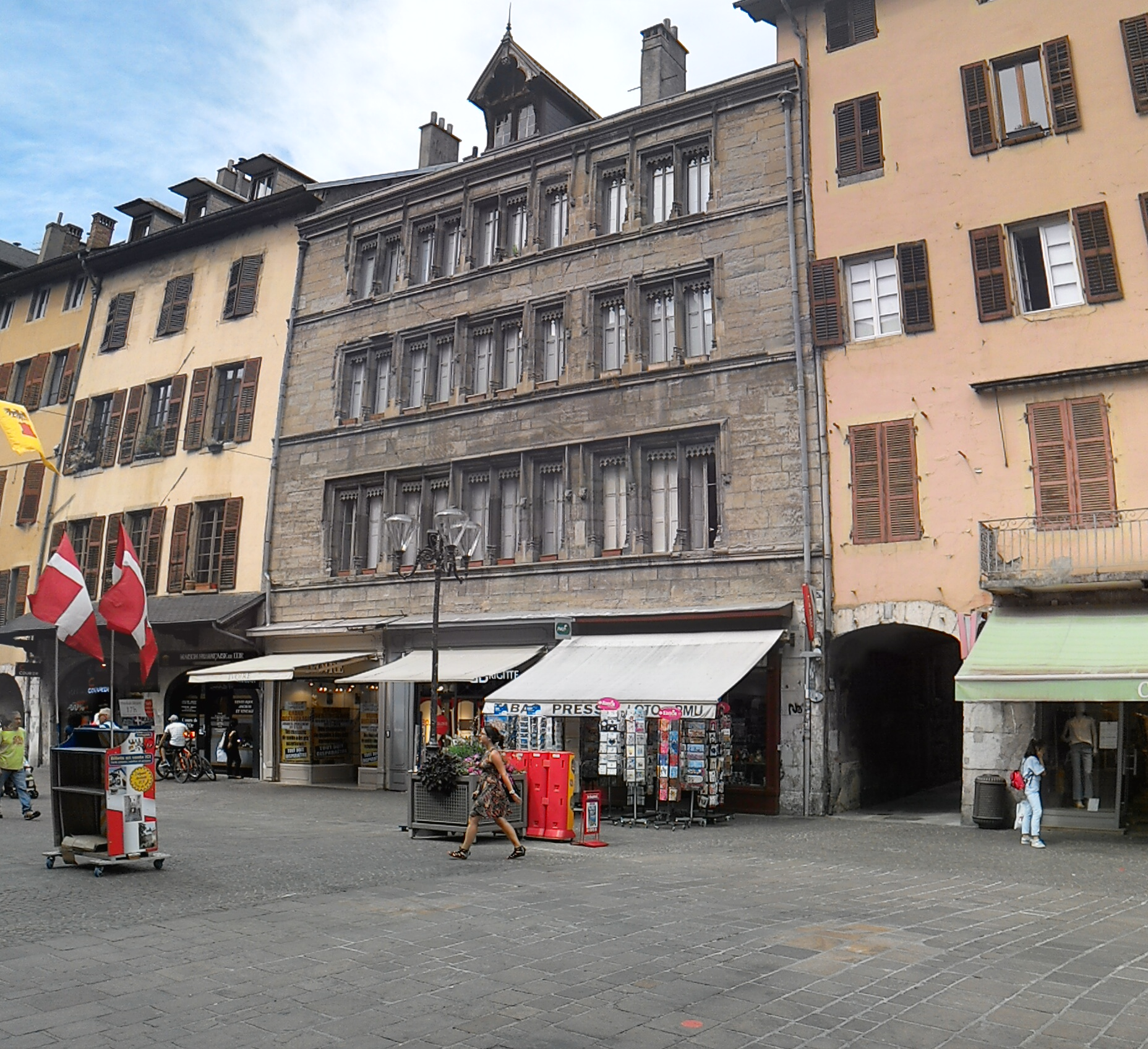 Sight of the hôtel Dieulefis building, in Chambéry, Savoie, France.